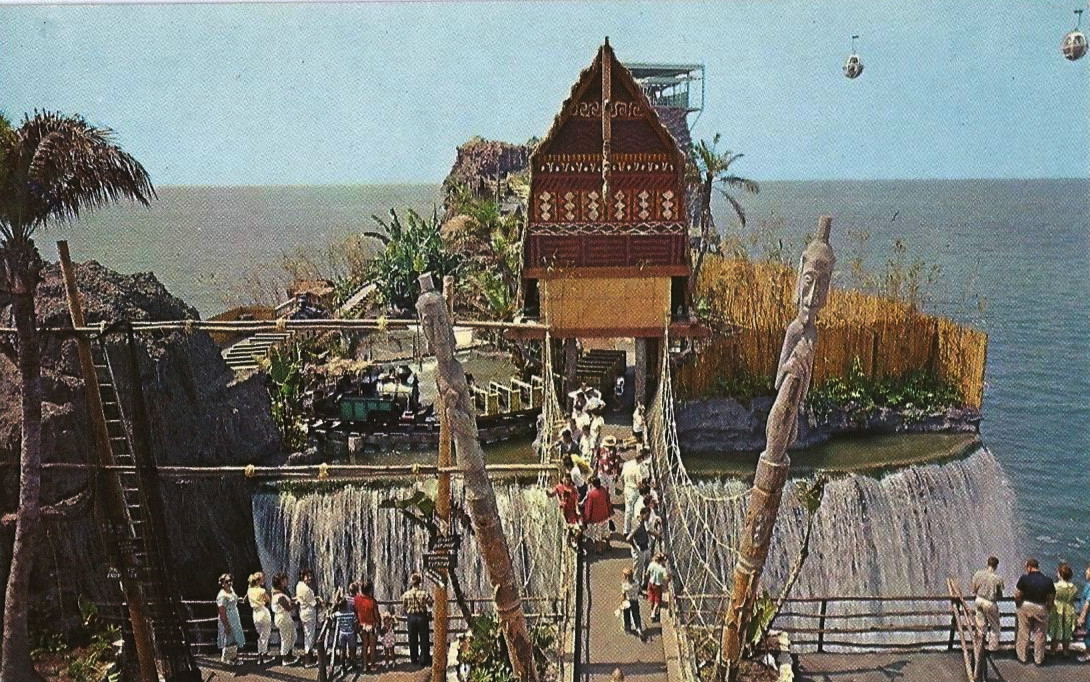 Postcard photo of The South Sea Island at Pacific Ocean park, Santa Monica, California.